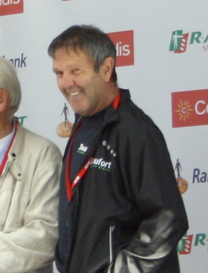 Podium of the World Ports Classic 2012 in Rotterdam, with Alexander Kristoff, Tom Boonen, André Greipel, Joop Zoetemelk, Jan Janssen, Roger De Vlaeminck